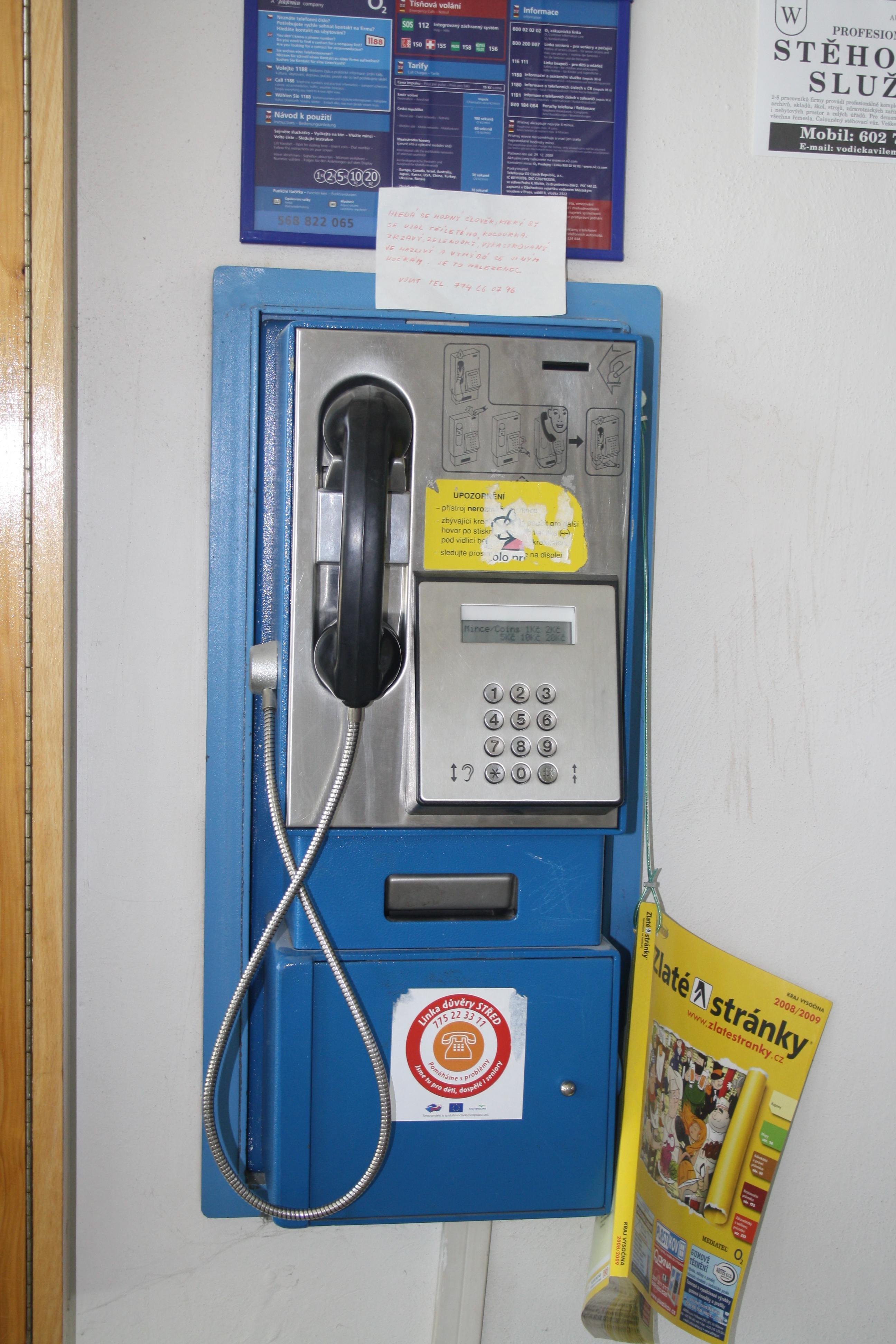 Payphone in Třebíč, Czech Republic.